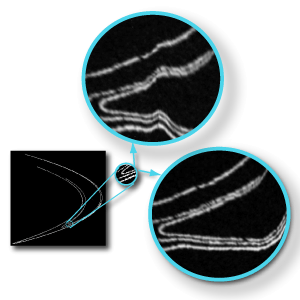 illustration of multifractal scaling method